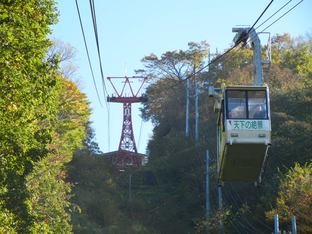 Ikaho_Ropeway. 群馬県渋川市で運行されている「伊香保ロープウェイ」, Shibukawa (Gunma).